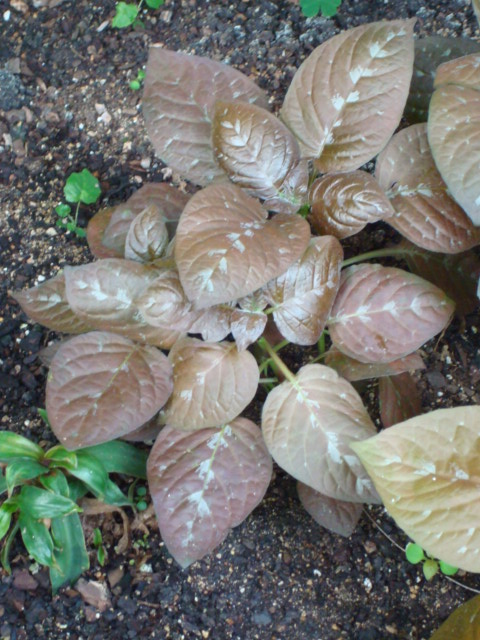 Picture of Pseuderanthemum alatum